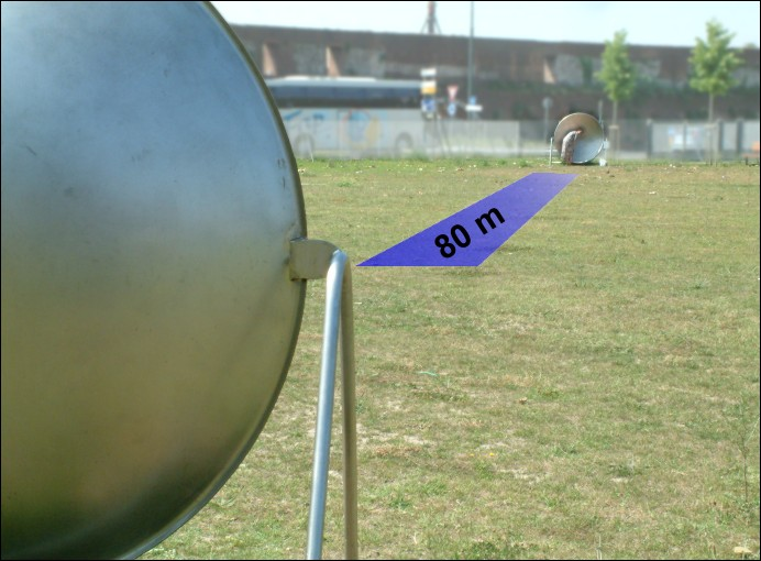 Parabolic reflectors for sound, diameter approx. 2m. Distance between the two mirrors: approx. 80m. Whispered words can be heard by other side if spoken into focus of the dishes.